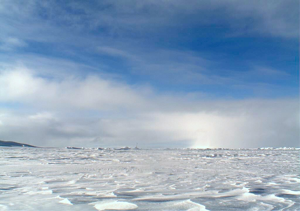 North Pole Web Cam Photo. The North Pole Web Cam is part of the North Pole Environmental Observatory, a joint National Science Foundation-sponsored effort by the Polar Science Center, / APL / UW, the Pacific Marine Environmental Laboratory / NOAA, the Japan Marine Science and Technology Center, Oregon State University, and Cold Regions Research and Engineering Laboratory. This image was taken with an automated web cam deployed at the North Pole by NOAA's Pacific Marine Environmental Laboratory. The image is freely available, however, your use of the image does not constitute an NOAA endorsement of your product or message. Credit NOAA/Pacific Marine Environmental Laboratory.